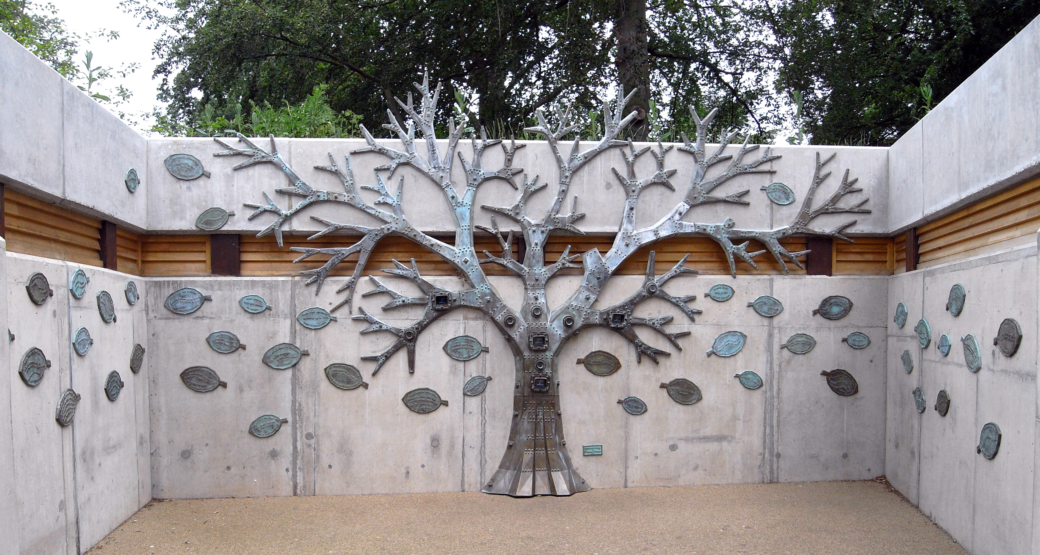 At the entrance to the Rhizotron, Kew Gardens, London.